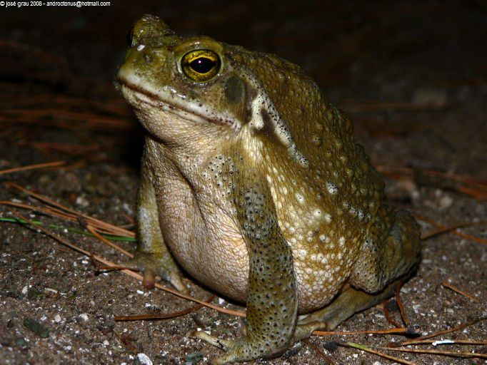 Sapo gigante